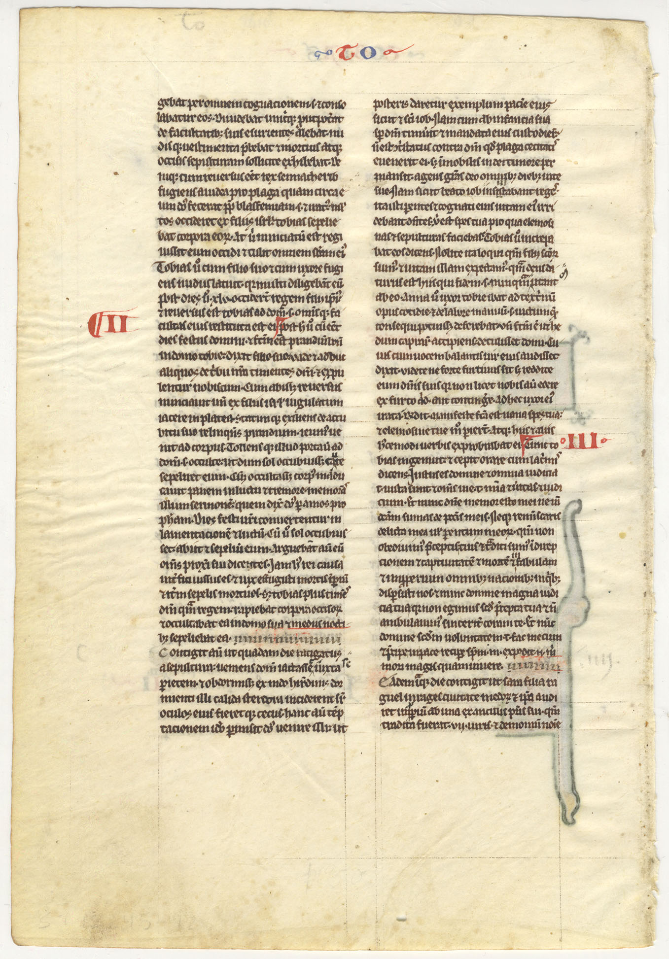 Leaf from c. 1240 vellum manuscript. Example of a 'pocket Bible' produced in Paris.